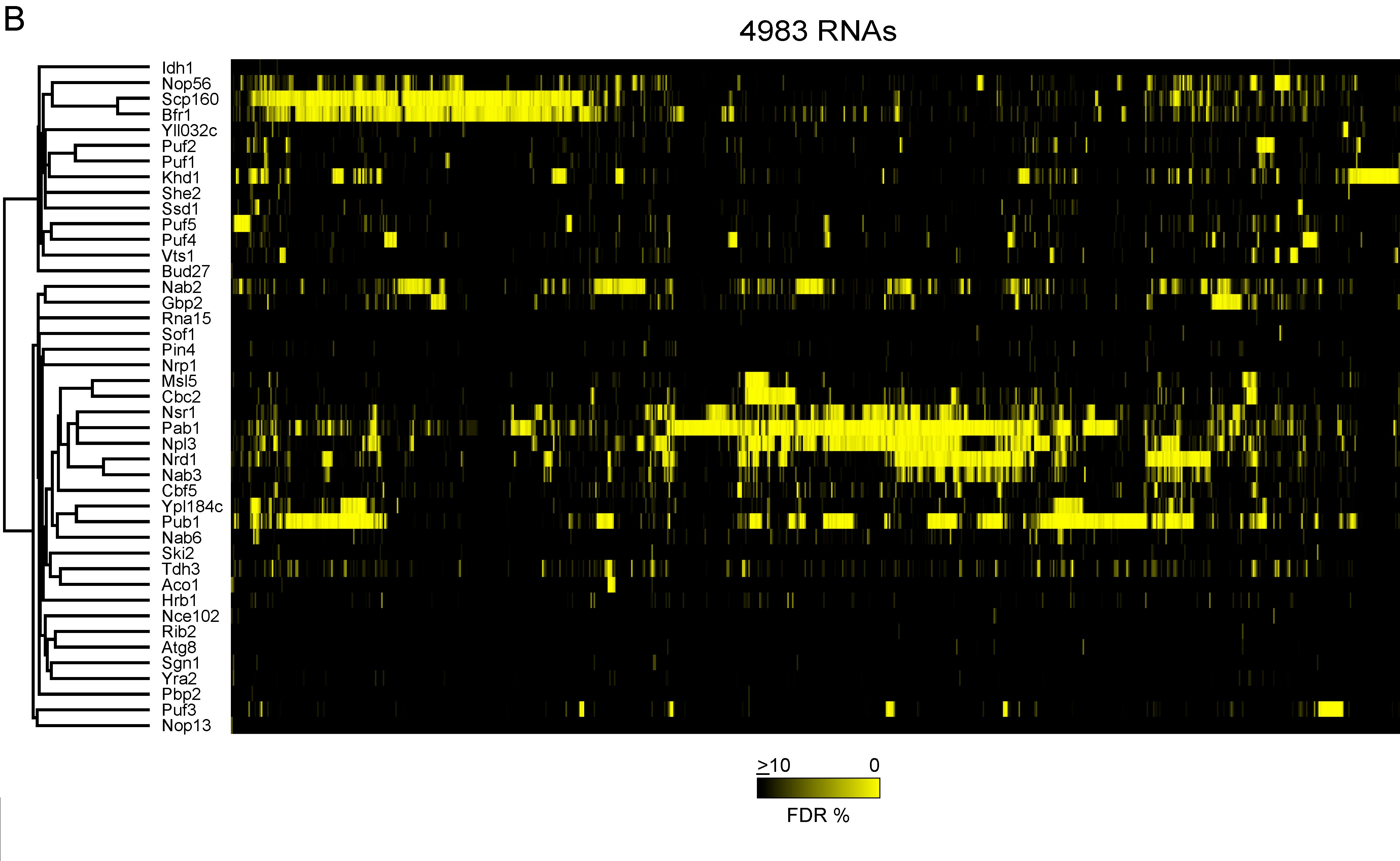 Hierarchically clustered heat map using aa-dUTPs from Plos1 article entitled: Diverse RNA-Binding Proteins Interact with Functionally Related Sets of RNAs, Suggesting an Extensive Regulatory System by Daniel J Hogan Figure description: "Hierarchically clustered heat map representation of RBPs and their RNA targets. Rows correspond to specific RBPs and columns correspond to RNAs. The certainty that the RNA is a bona fide target of the specified RBP is represented by a continuous black (10% FDR or greater) to yellow (0% FDR) scale."